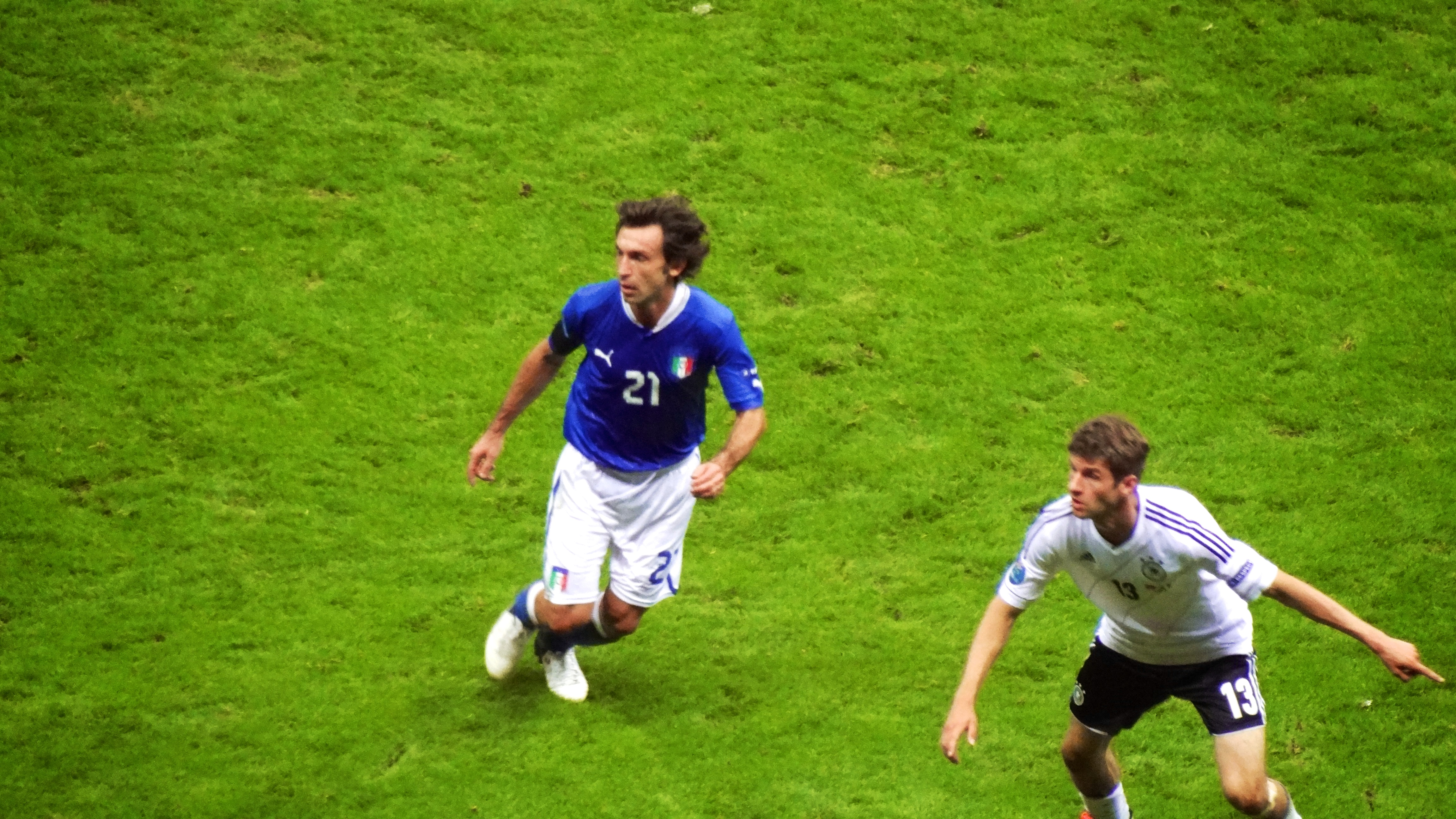 Andrea Pirlo and Thomas Müller during Germany - Italy, UEFA Euro 2012